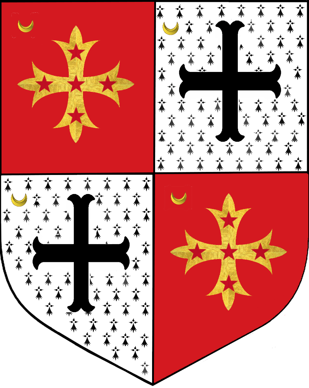 Coat of Arms of Sir Anthony Ughtred (d. 1534): Quarterly —1 and 4, Gules, on a cross patonce Or 5 five mullets Gules; 2 and 3, Ermine, a cross moline Sable. On each a crescent Or for difference. Crest: Out of a ducal coronet Or, a buck's head Azure, attired Or. References: Metcalfe, Walter C. (1885). A Book of Knights Banneret, Knights of the Bath, and Knights Bachelor. London: Mitchell and Hughes. pp. 42, 45. Papworth, John W. (1874). Morant, Alfred W. (ed.). An Alphabetical Dictionary of Coats of Arms, Belonging to Families in Great Britain and Ireland. II. London: T. Richards, p. 659 Walker, J. W. (1944). Yorkshire Pedigrees. vol. 3. Publications of the Harleian Society. XCVI. London: Harleian Society. p. 400. See also Thomas Ughtred, 1st Baron Ughtred in Beltz, George Frederick. (1841). Memorials of the Order of the Garter from Its Foundation to the Present Time, London: William Pickering, pp. 107–110.